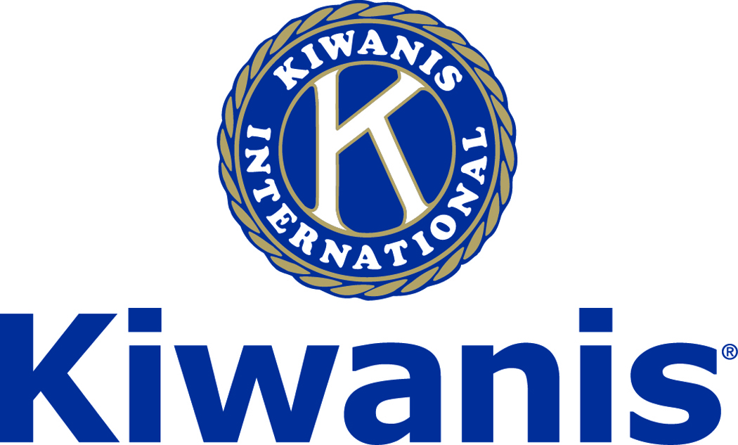 This is the official Kiwanis seal and word mark